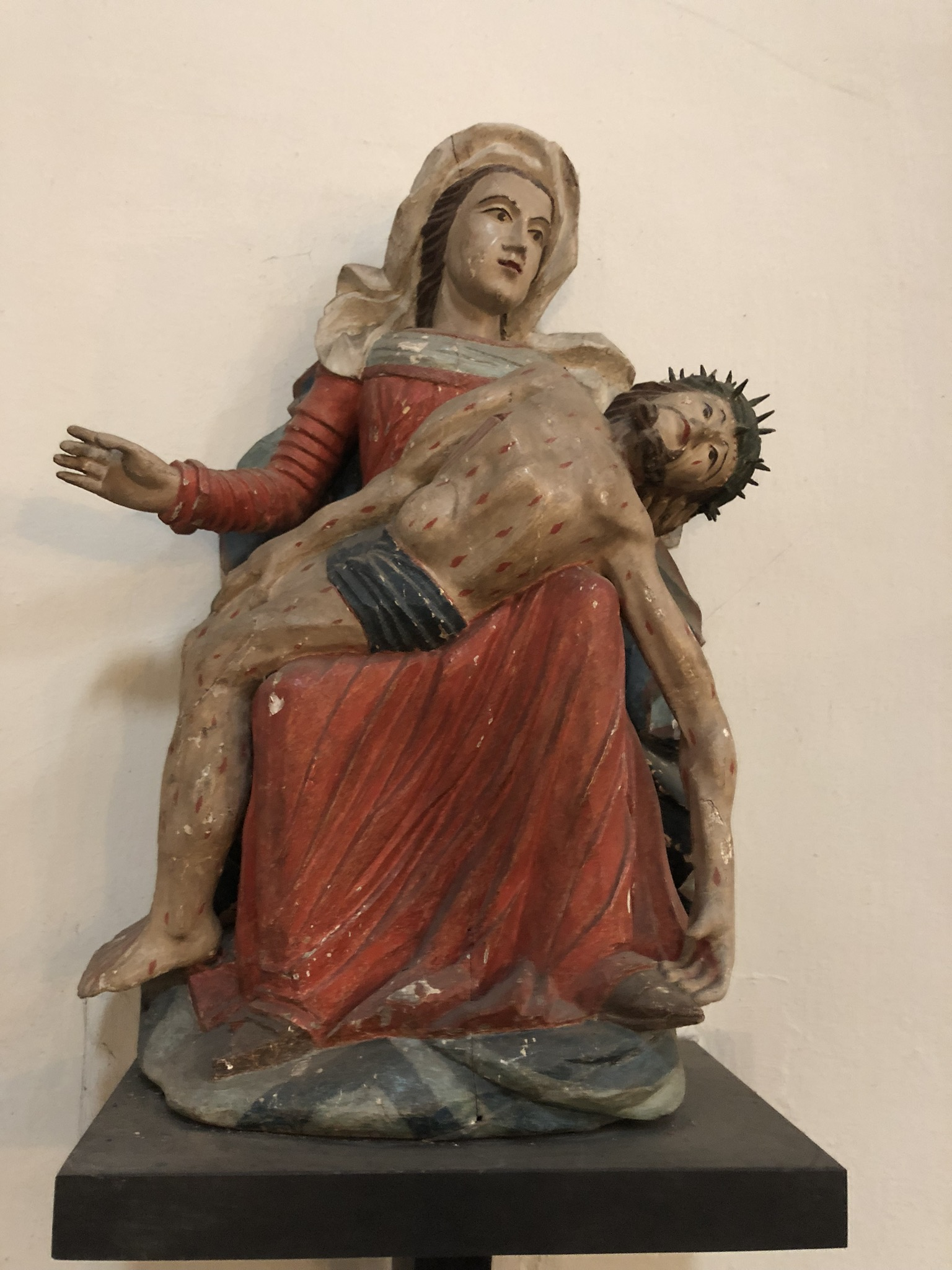 Pieta from Mechernich-Strempt